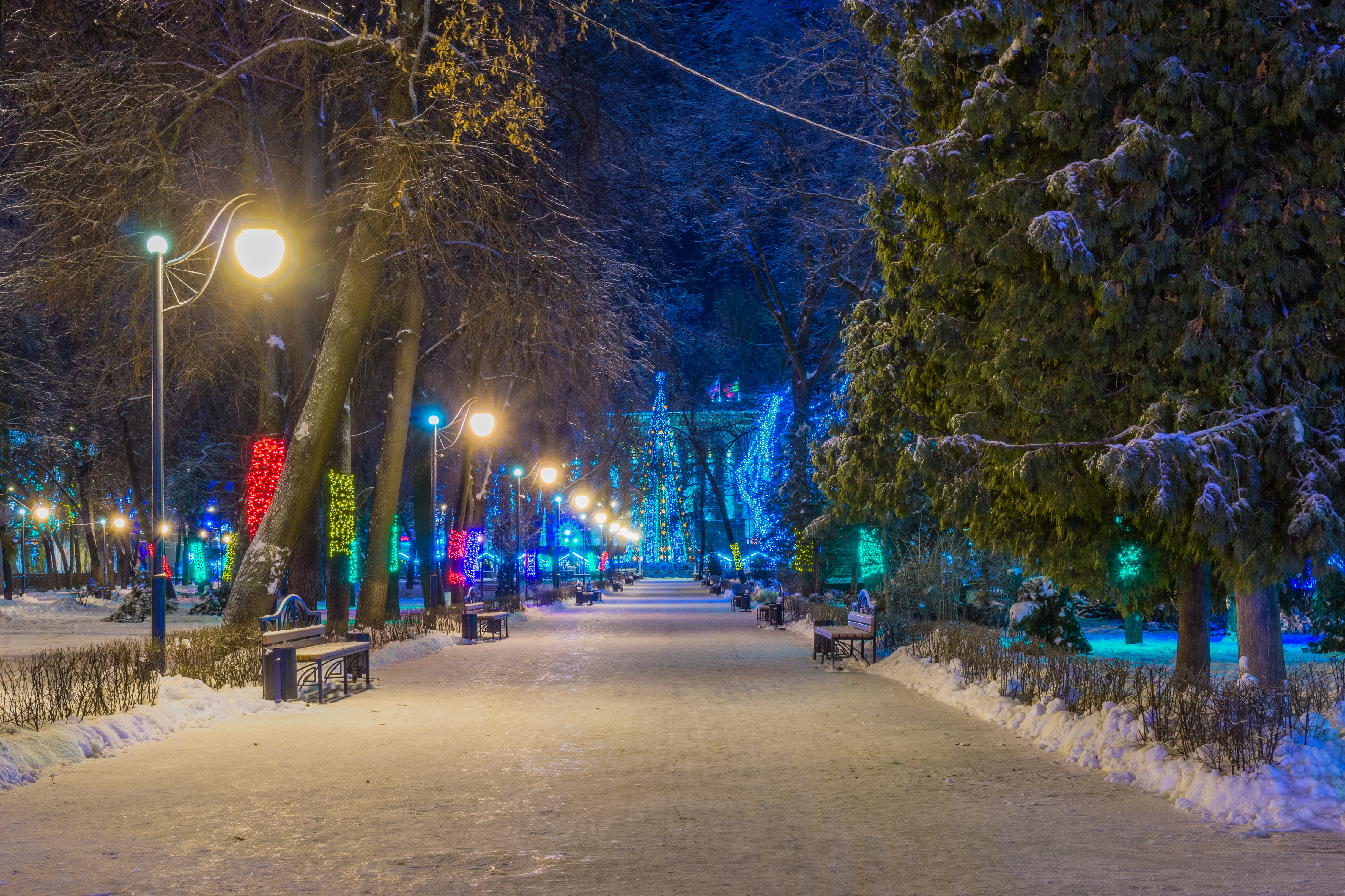 A parkway in Koltsovsky Garden Square, Voronezh, Russia